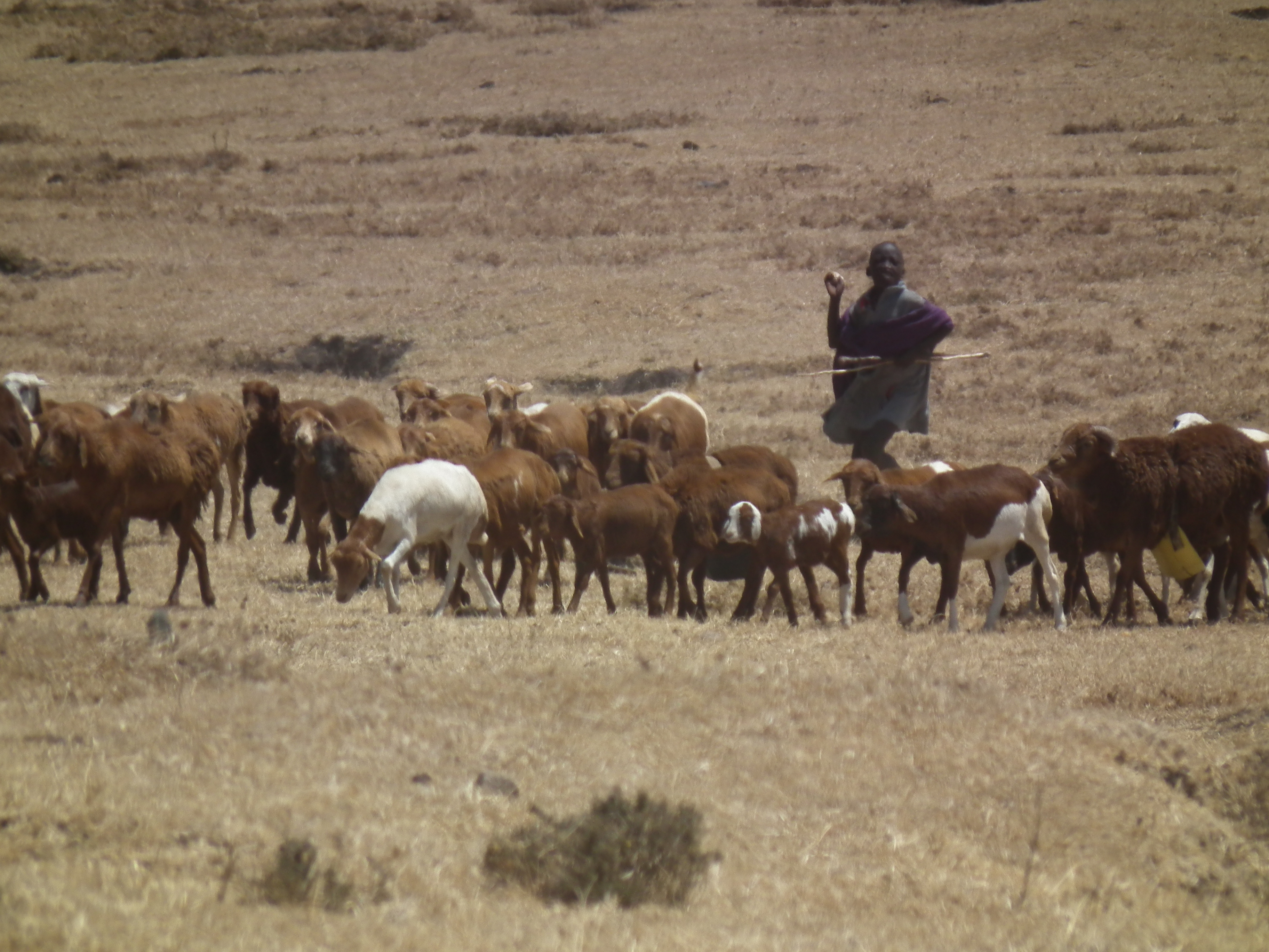 Cattle in Tanzania